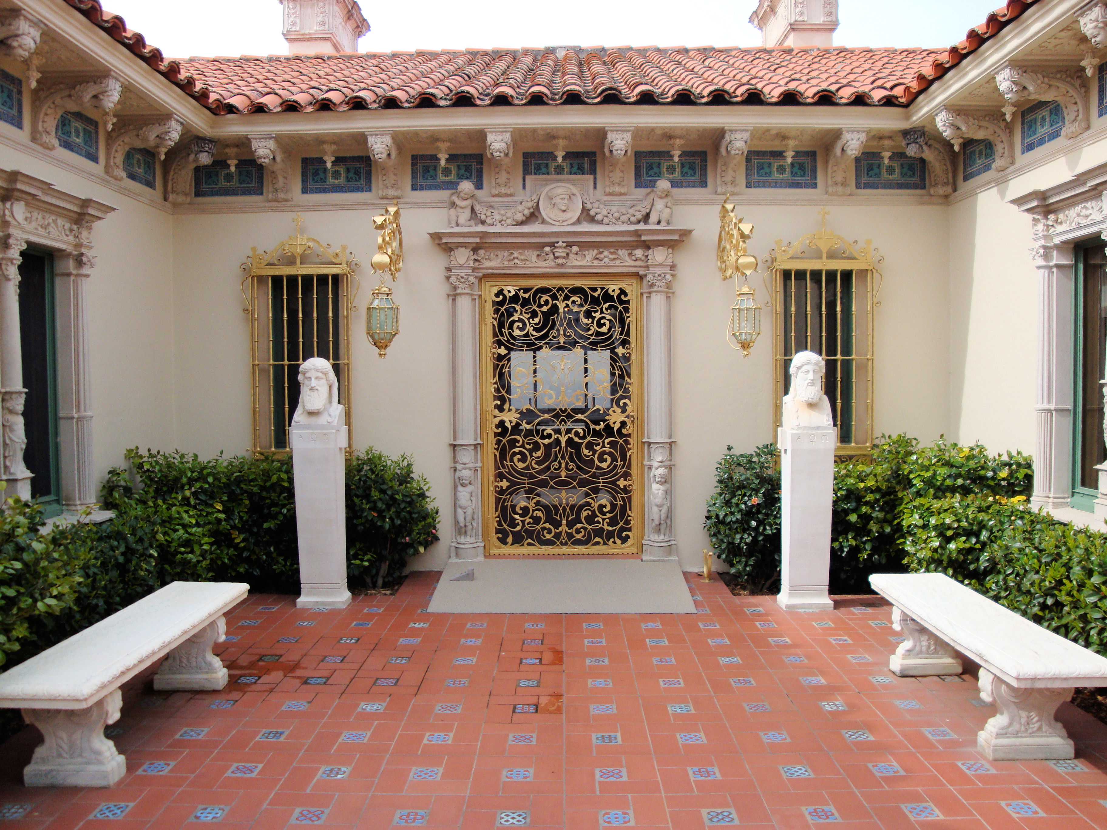 Courtyard patio and garden at a guesthouse of Hearst Castle.